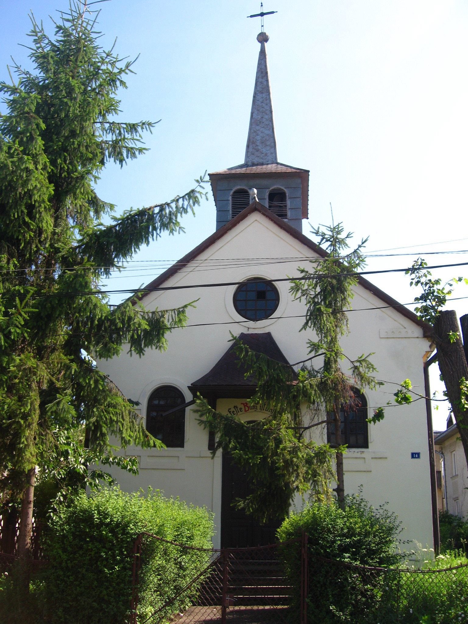 Evangelical Church in Suceava.